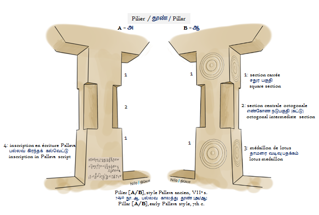 Early period Pallava pillars, 7th c.